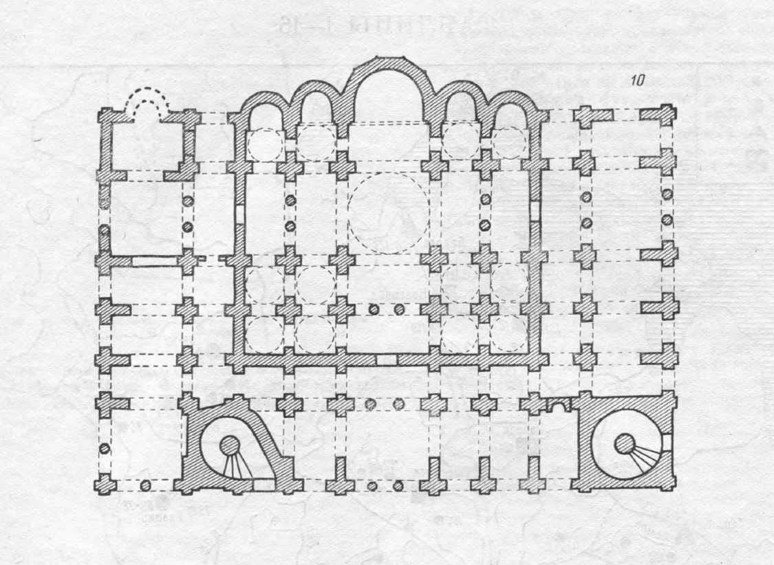 Plan of Saint Sofia Cathedral in Kyiv, Ukraine